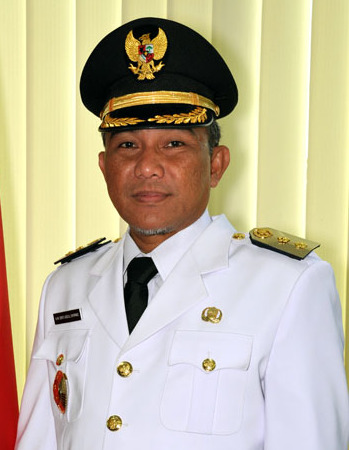 Mohammad Idris as Vice Mayor of Depok, Indonesia